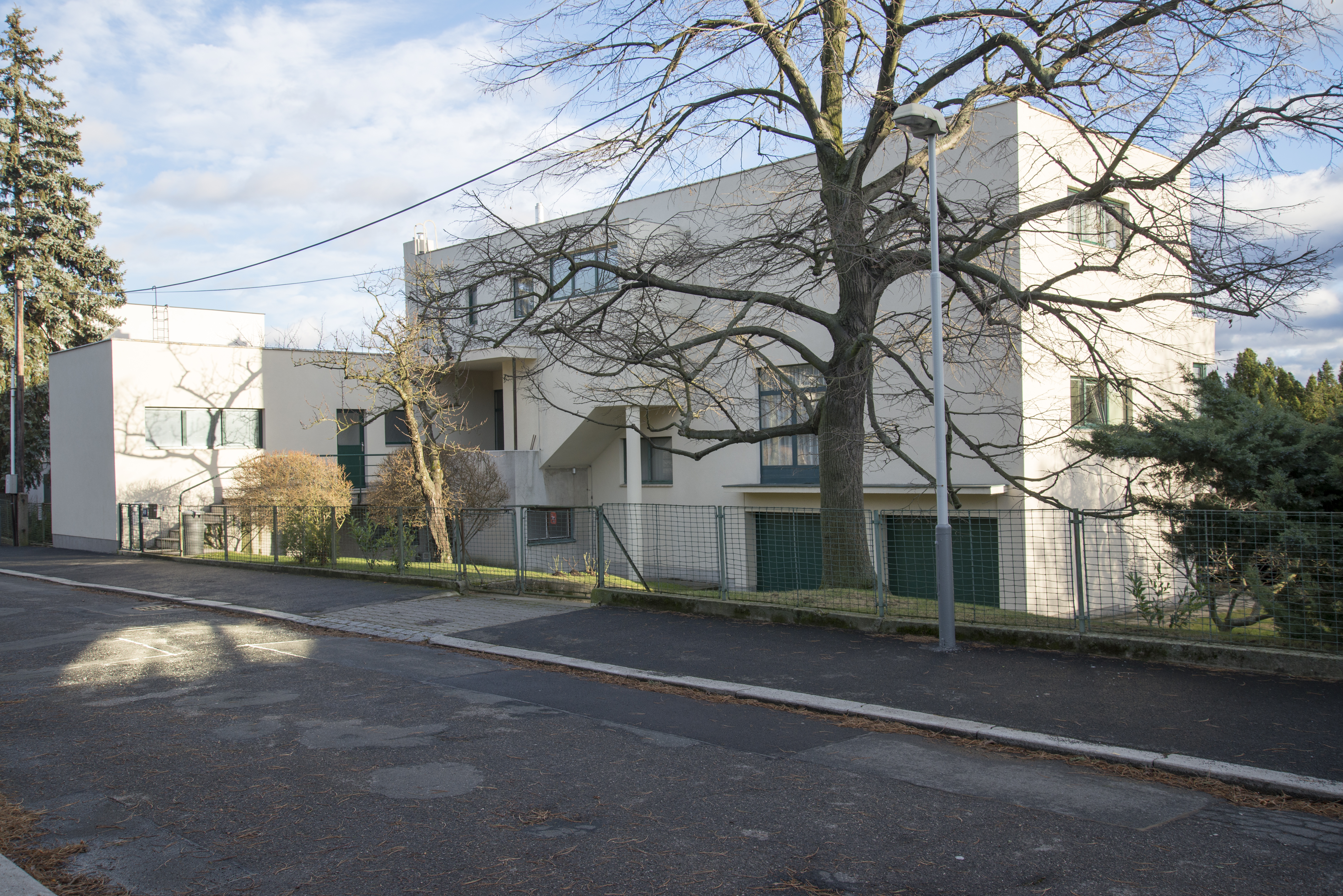 Osada Baba (Baba Functionalism colony in Prague) - House Suk